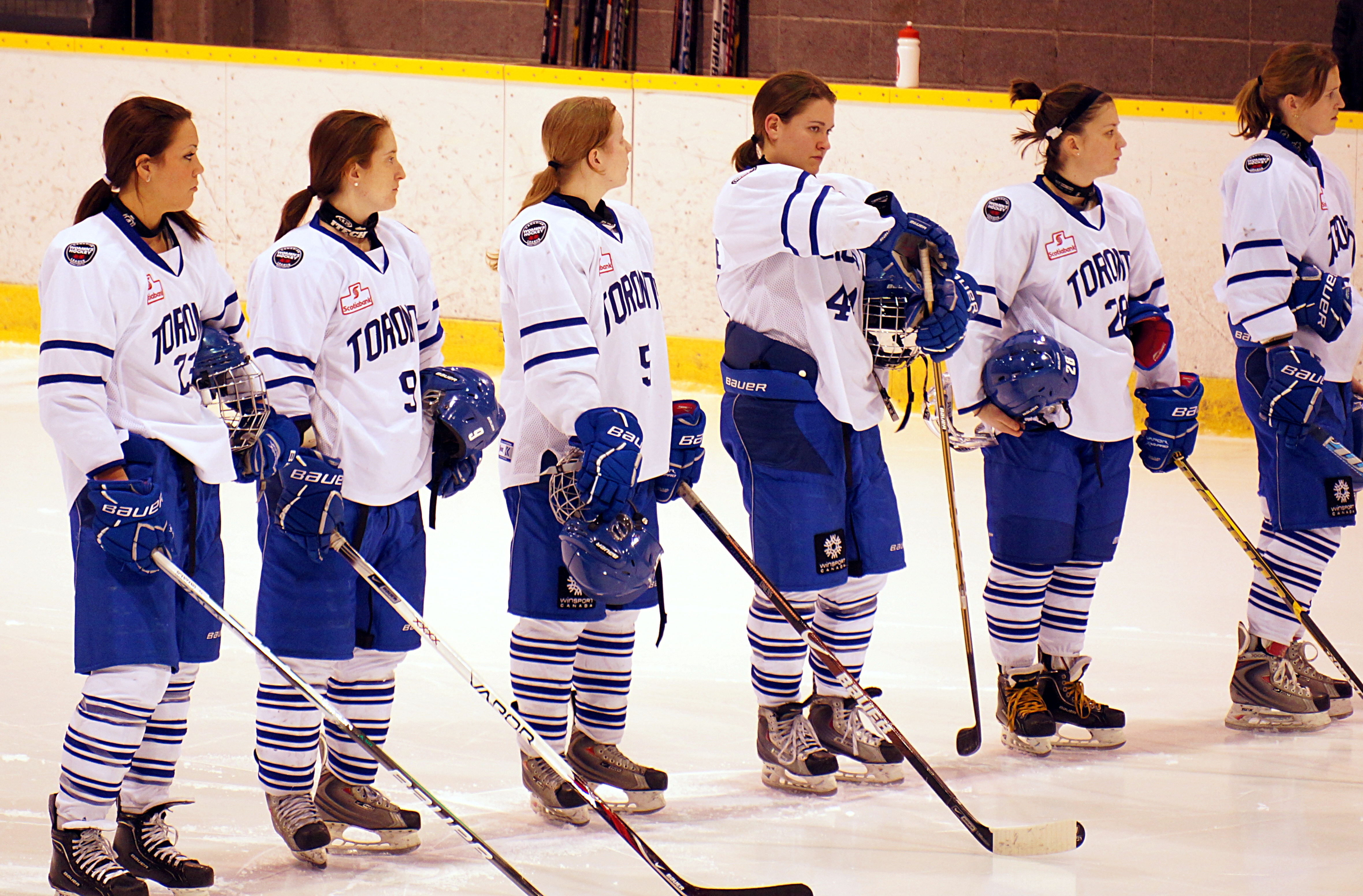 The Toronto Furies are a professional women's ice hockey team that plays in Toronto, Ontario.